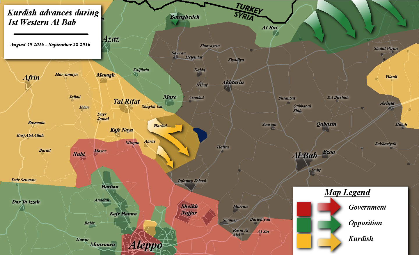 A simplified map of Kurdish advancements during the first Western Al Bab Offensive. Created in gimp 2.8. Influenced by many maps from creators: MrPenguin20, PetoLucem, Edmaps Syria, and so on.